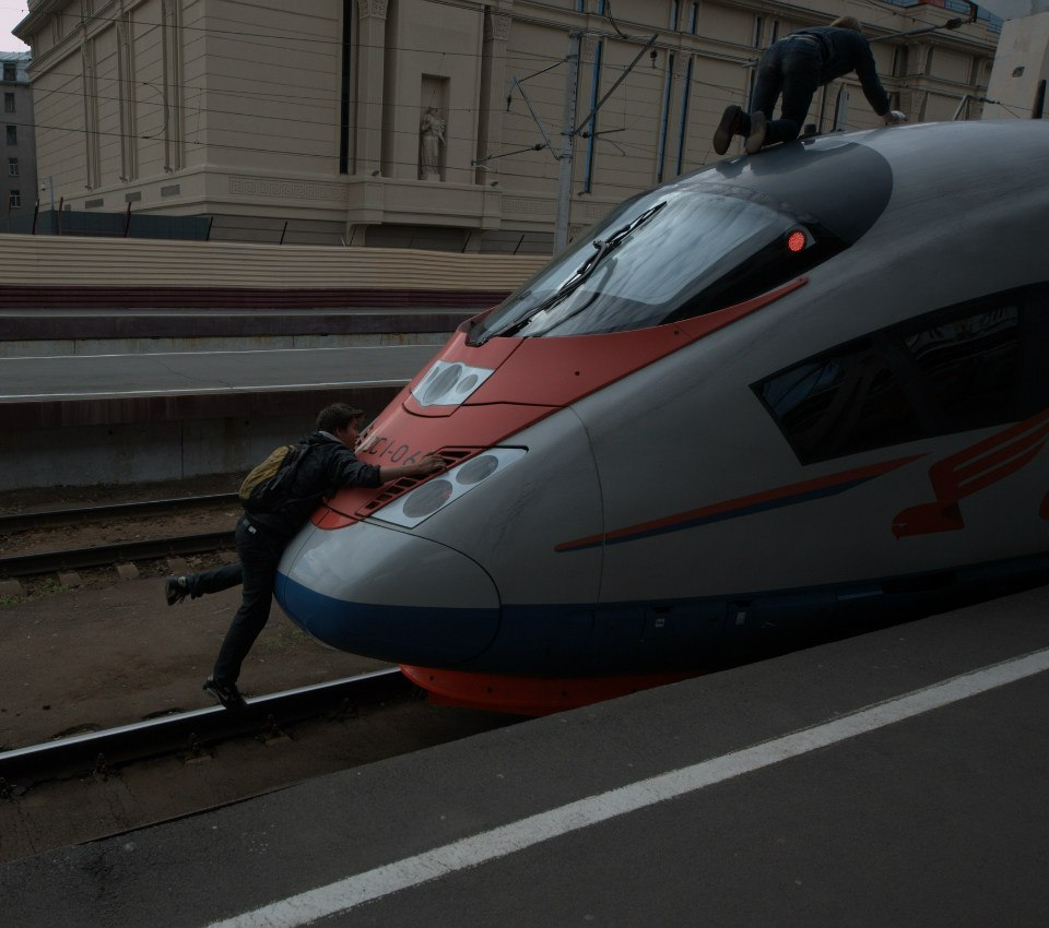 Train surfers climb on a back side of the high-speed Velaro RUS EVS1-06 ("Sapsan") EMU train.